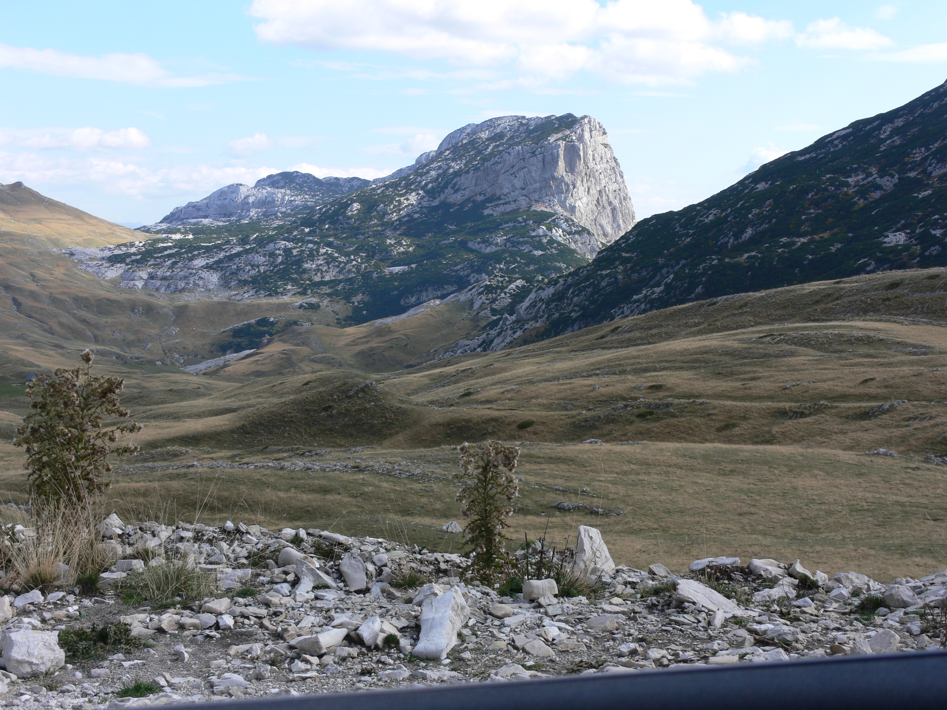 Boljska Greda (2091 m) Durmitor National Park, Montenegro.